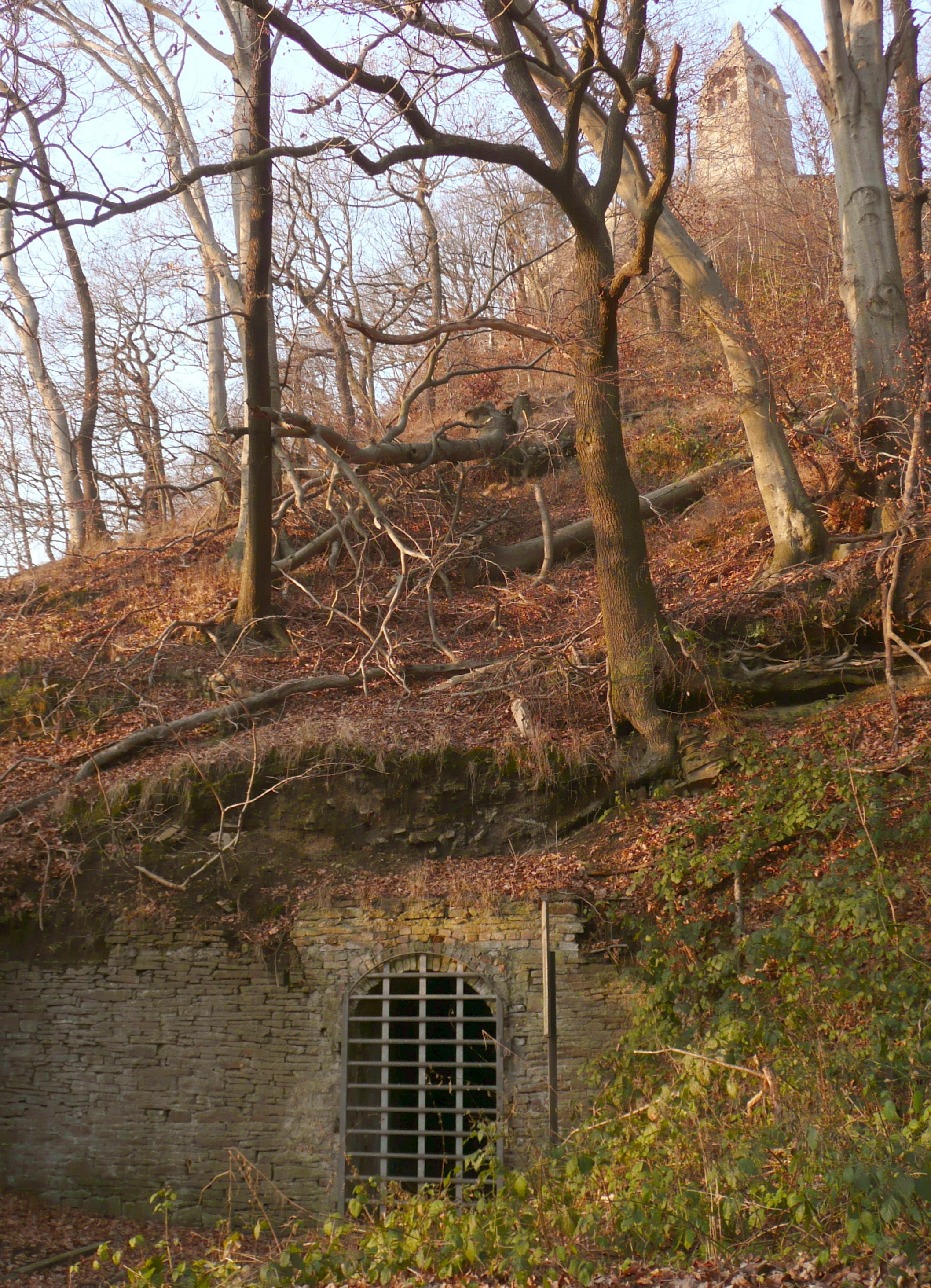 Former coalmine Timmerbeil and the monument Bergerdenkmal in Witten